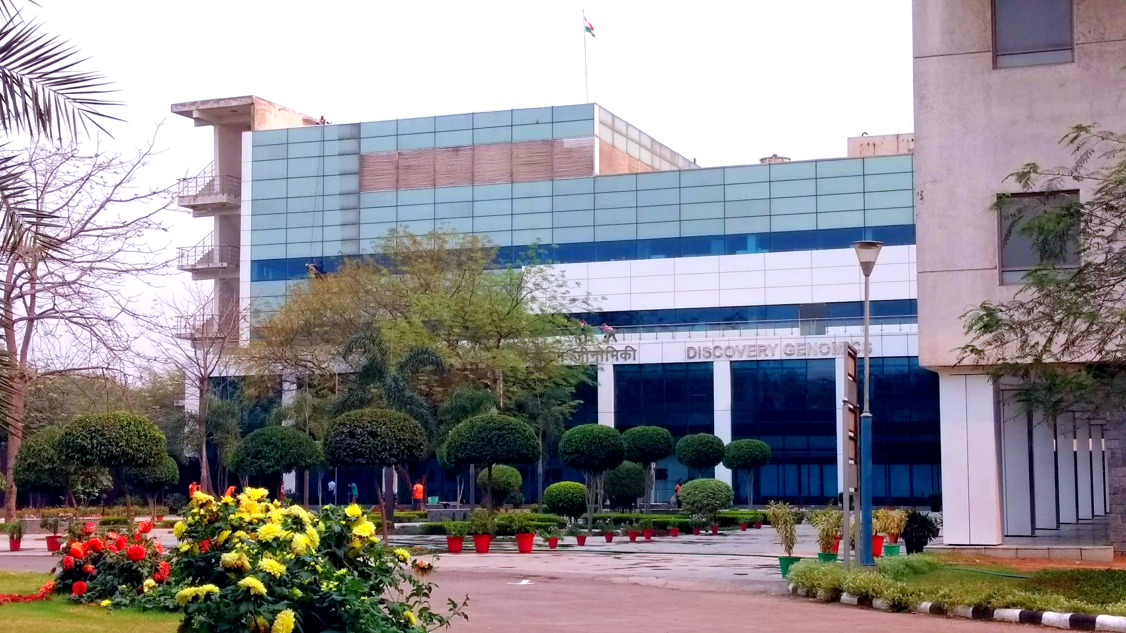 Discovery Genomics building